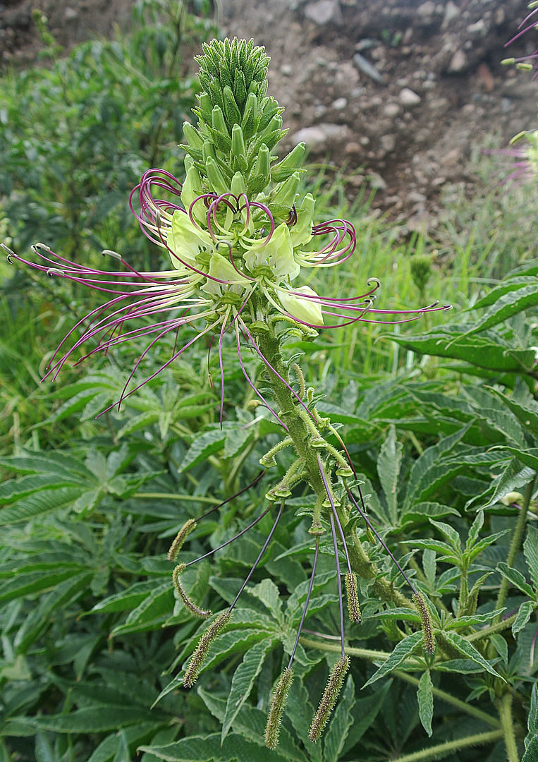 Native to the mountains of Colombia and Ecuador. Photo from east of Quito, where it is known as Garcita, or by the indigenous name of Chunkayuyu. In context at